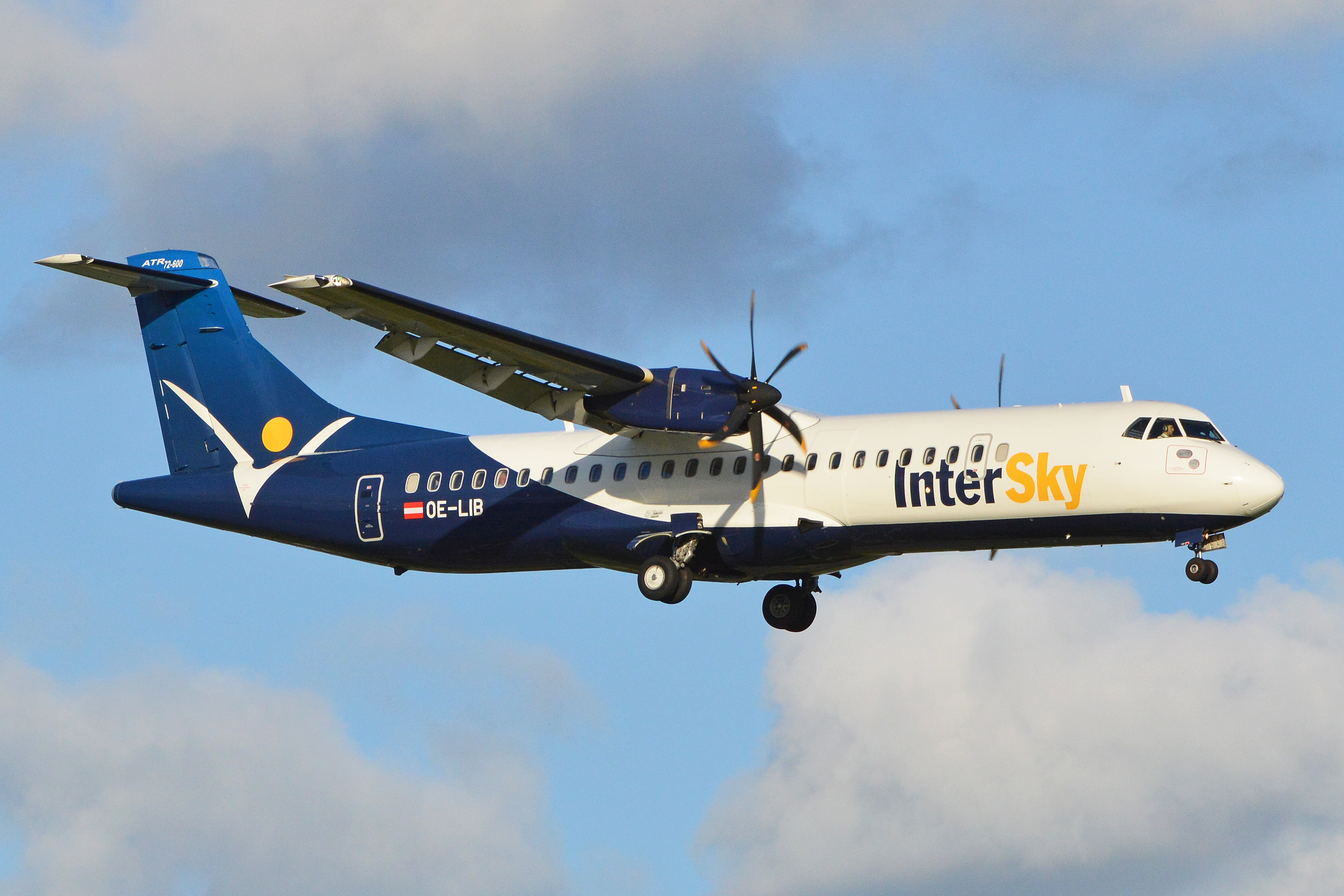 c/n 1038. Built 2012, delivered in 2013. Seen landing at Hamburg Airport, Germany. 22-6-2014